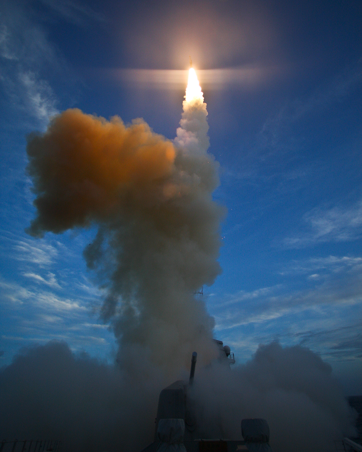 PACIFIC OCEAN (Oct. 28, 2009) A Standard Missile-3 (SM-3) is launched from the Japan Maritime Self-Defense Force destroyer JS Myoko (DDG 175) in a joint missile defense intercept test with the Missile Defense Agency in the Pacific Ocean. The SM-3 successfully intercepted a medium-range target that had been launched minutes earlier from the Pacific Missile Range Facility, Barking Sands, Kauai, Hawaii. Myoko's crew detected and tracked the target, developed a fire control solution, then launched the SM-3. (U.S. Navy photo Courtesy of the Missile Defense Agency/Released)